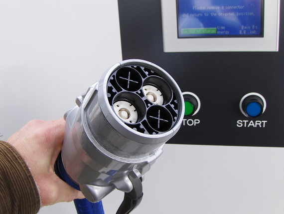 DC quick charging plug at Vacaville, California (I-80 and Davis St) CHAdeMO / TEPCO station.